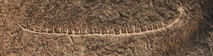 Qobustan, Azerbaijan